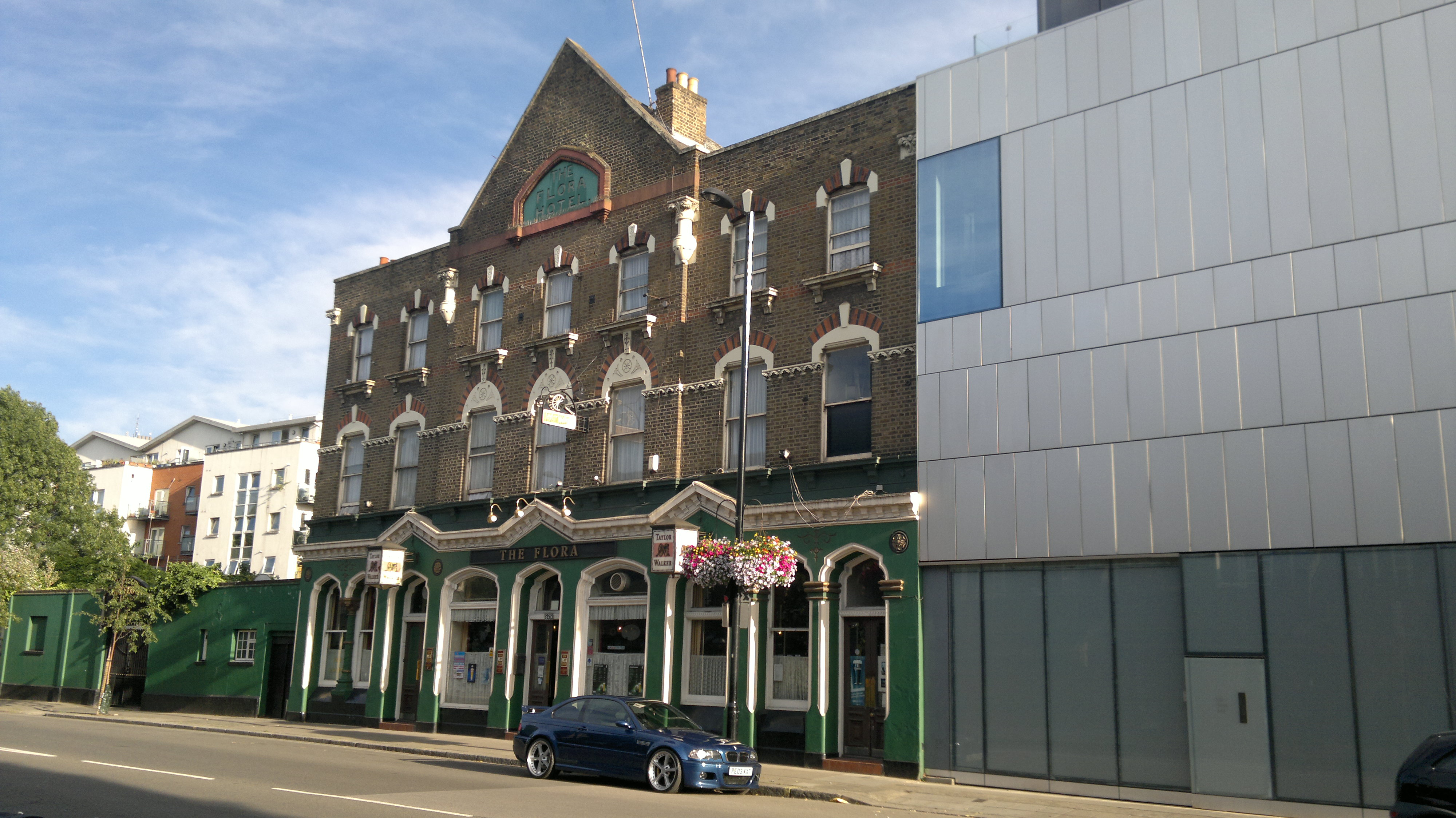 The Flora pub and hotel, Harrow Road, London